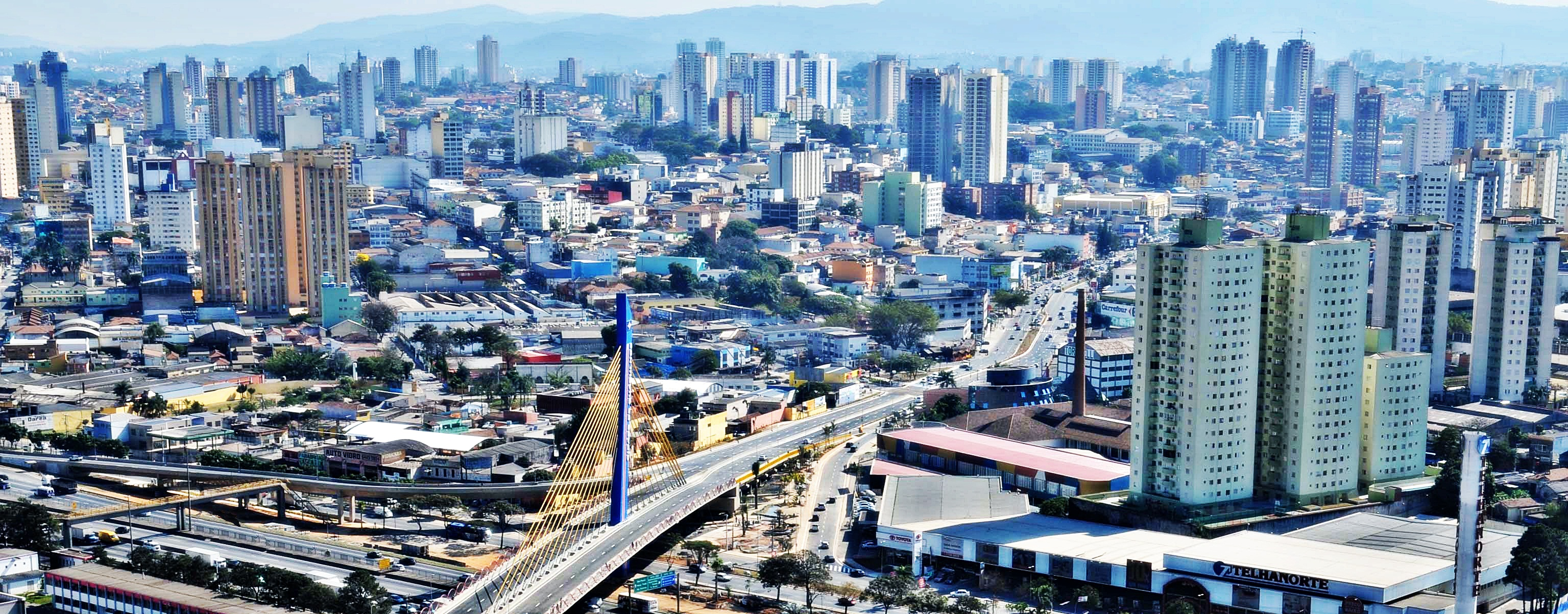 Guarulhos